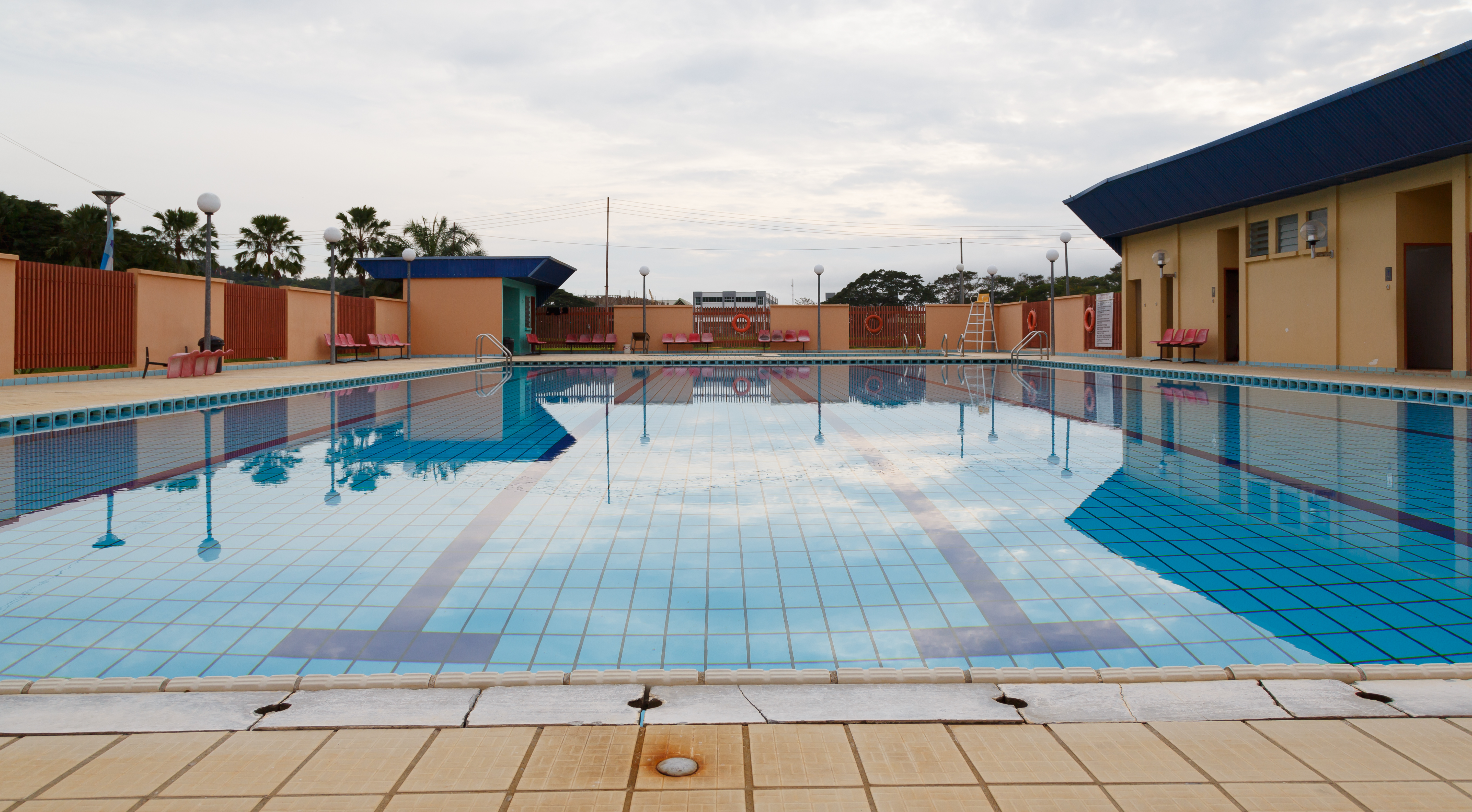 Tenom, Sabah, Malaysia: The outdoor swimming pool at Tenom Sports Complex)